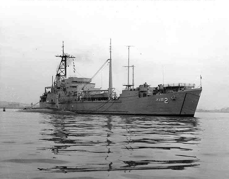 USS Tallahatchie County (AVB-2) with USS Scorpion (SSN-589) alongside, outside Claywall Harbor, Naples, Italy, April 1968, shortly before Scorpion departed on her last voyage. This is believed to be one of the last photographs taken of Scorpion. US Navy photo NH 68140 Courtesy Lt John R Holland, Engineering Officer, USS Tallahatchie County, 1969. US Naval Historical Center. Tallahatchie County was the former LST-1154, of the Talbot County LST-class, redesignated AVB-2 (Advanced Aviation Base Ship) in 1962. Official US Navy photo taken from